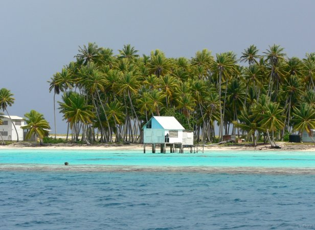 Pearl farm in Raroia